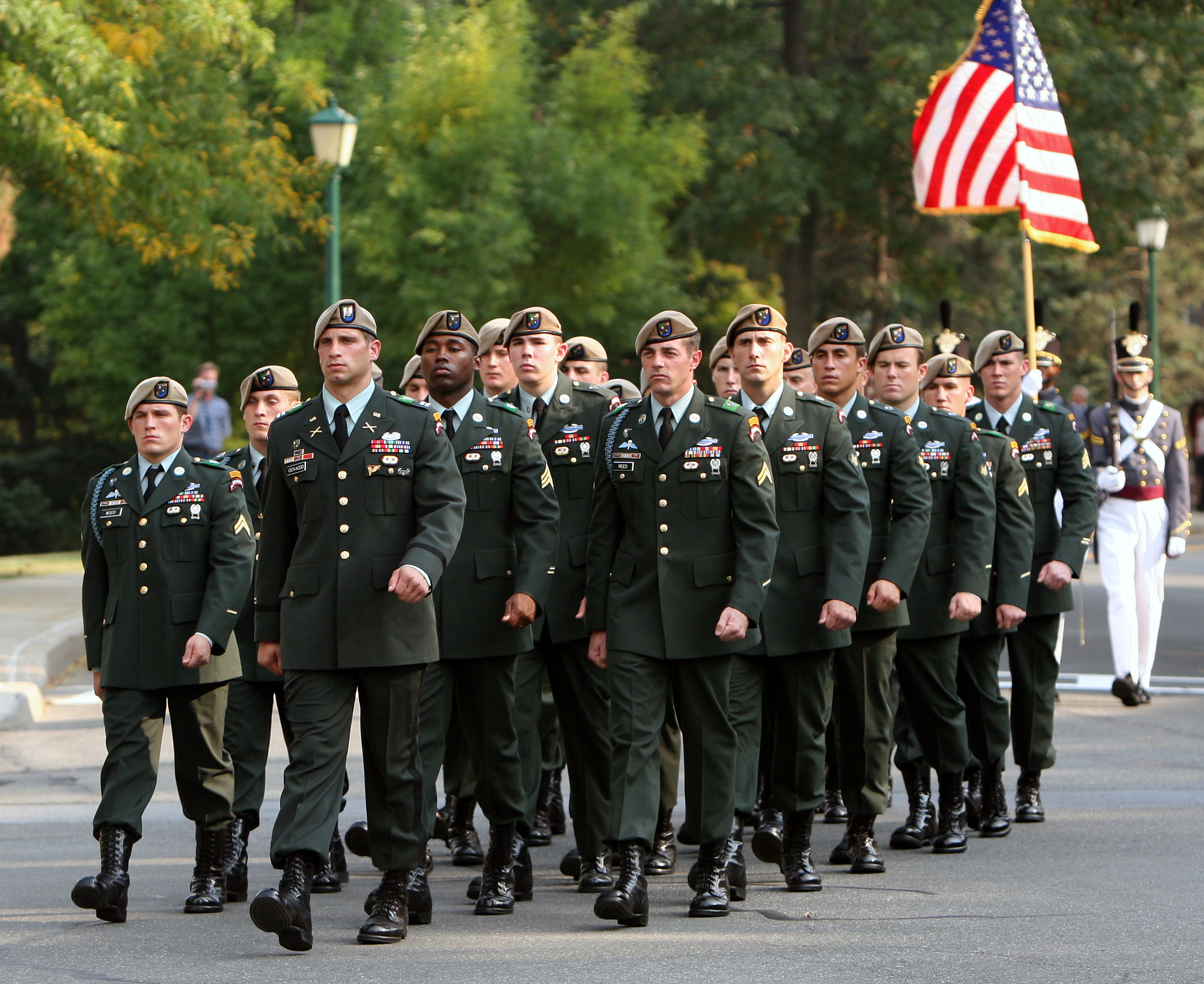 U.S. Army Rangers with the 75th Ranger Regiment make up the "honor platoon" in a funeral procession to the gravesite of Gen. (retired) Wayne A. Downing during his internment service at West Point, NY, Sept. 27, 2007.